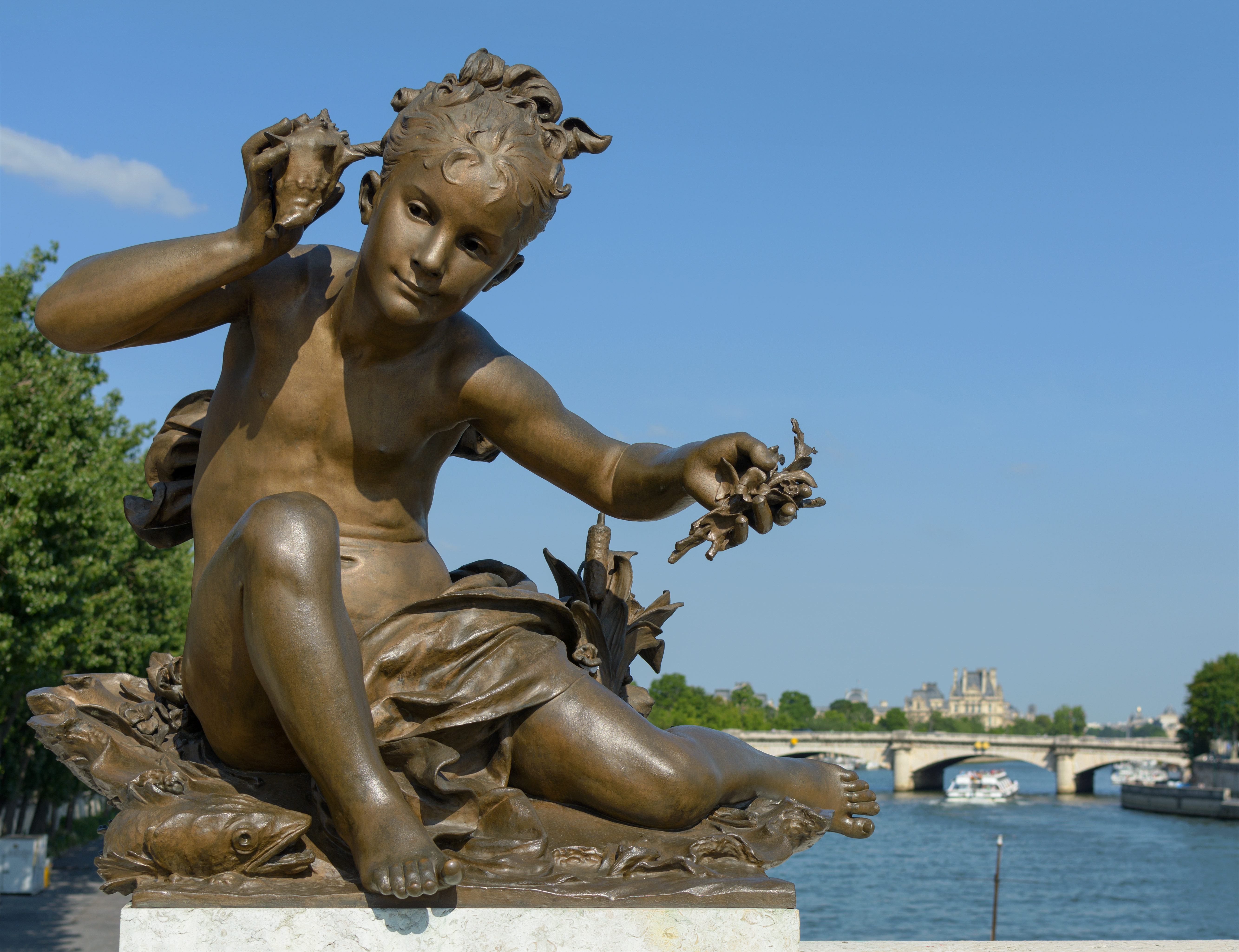 “Girl with Shell” by Léopold Morice - Pont Alexandre III, Paris, France